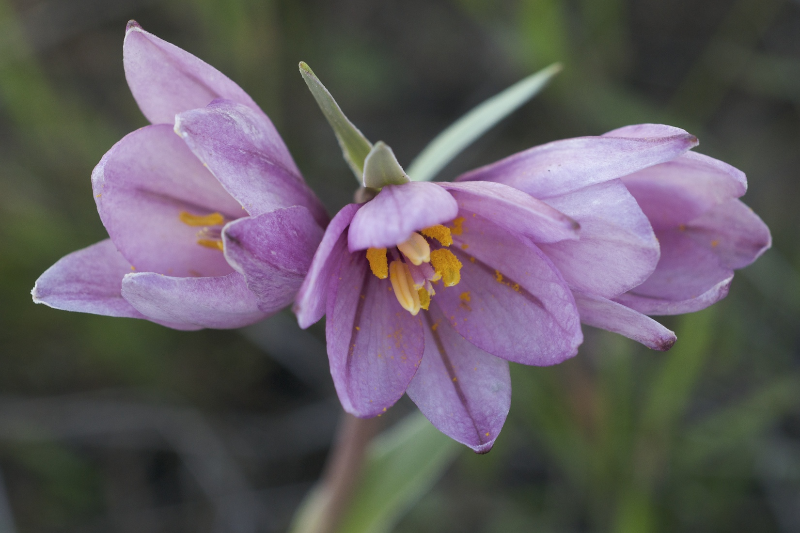 Species from California Common name: Adobe Lily Photographed in Lake County, California